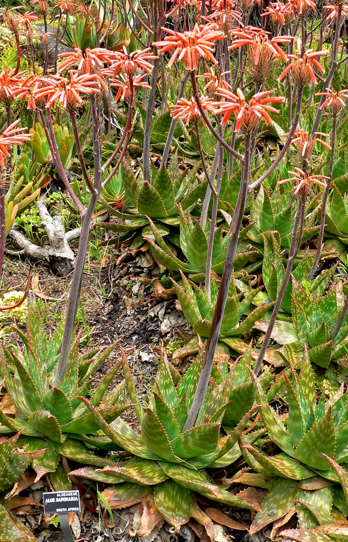 Photo of Aloe saponaria at the San Francisco Botanical Garden